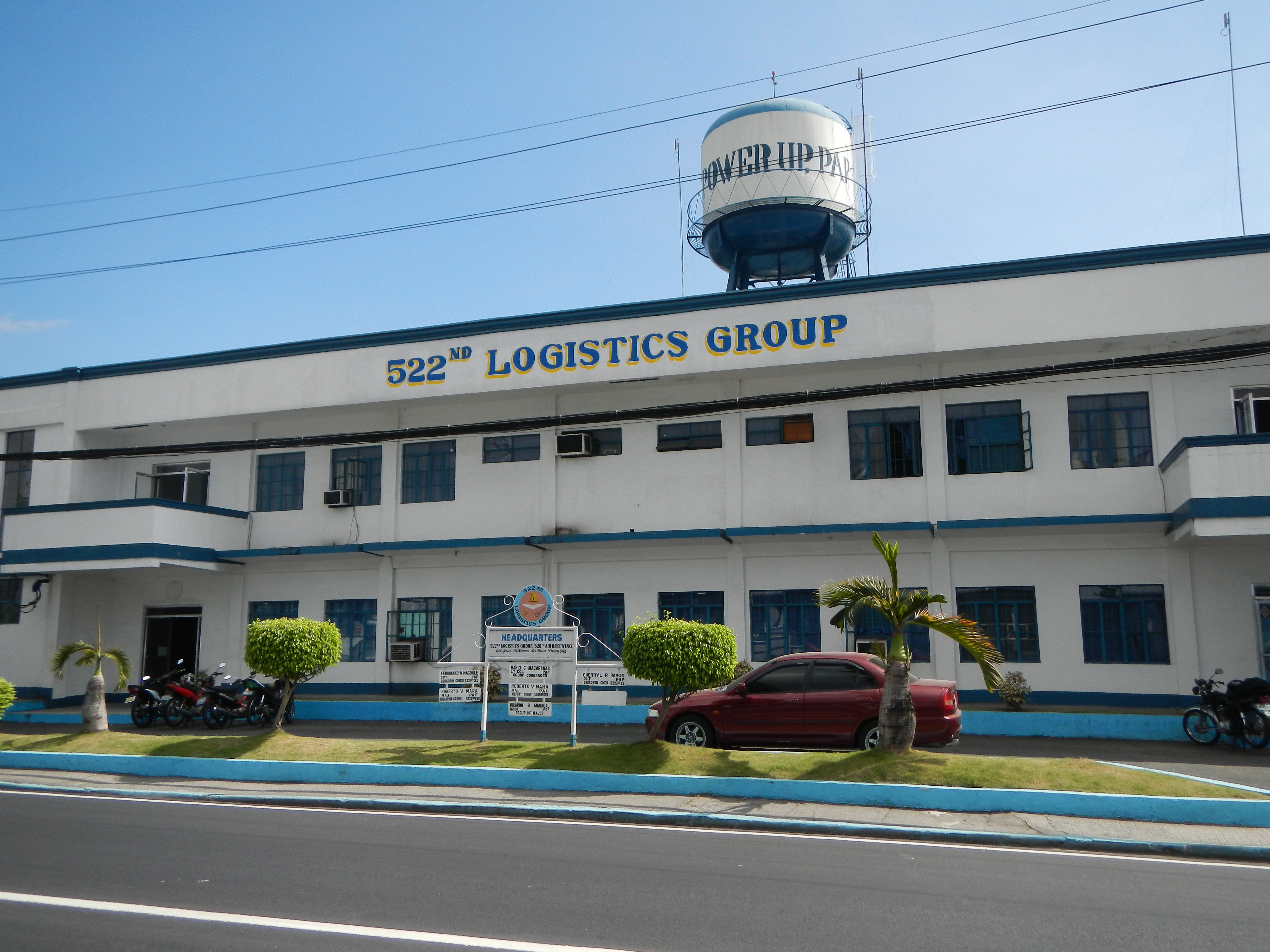 Upload Wizard photos of - a) Chapel and Golf Club of Villamor Air Base [1] named after Jesús A. Villamor [2] Philippine Air Force [3] locted at Parañaque City and Pasay City, Metro Manila - the - Philippine Air Force Museum or Villamor Air Base Aircraft PAF Museum or Aerospace Museum Villamor Air Base Pasay City [4] --- List of former aircraft of the Philippine Air Force [5] - b) the Museum includes --- a) The Bell UH-1 Iroquois unofficially Huey [6] Bell UH-1 Iroquois Bell UH-1 family UH-1 Huey, b) the Skyway and Interchange, SLEX Expressway, c) Plaridel Town Proper d) Angat River in Plaridel Pulilan Bridge, d) Pulilan Massway Shakeys e) and Baliuag Bulacan Clock Tower and Glorietta.